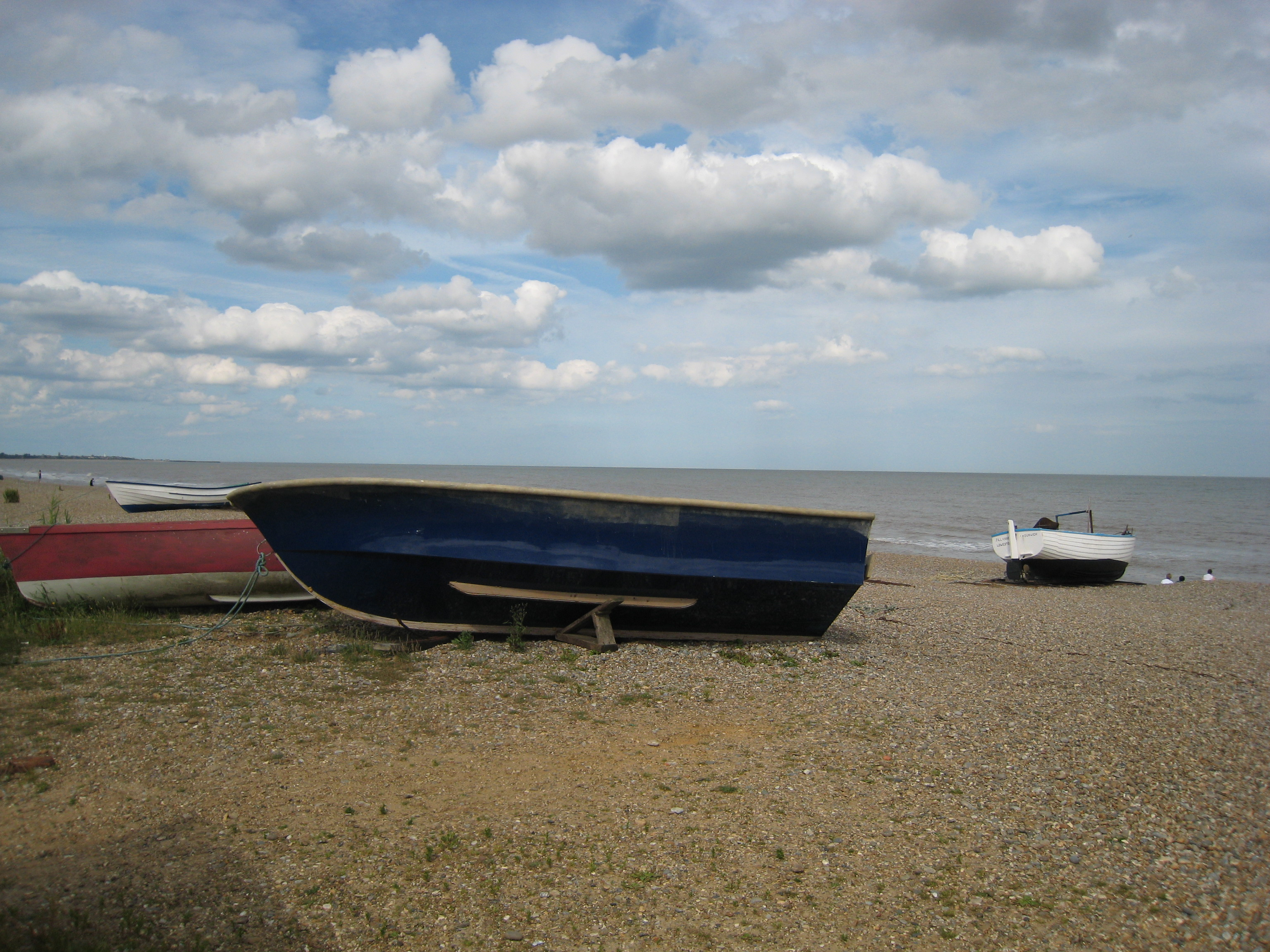 Dunwich seafront today.